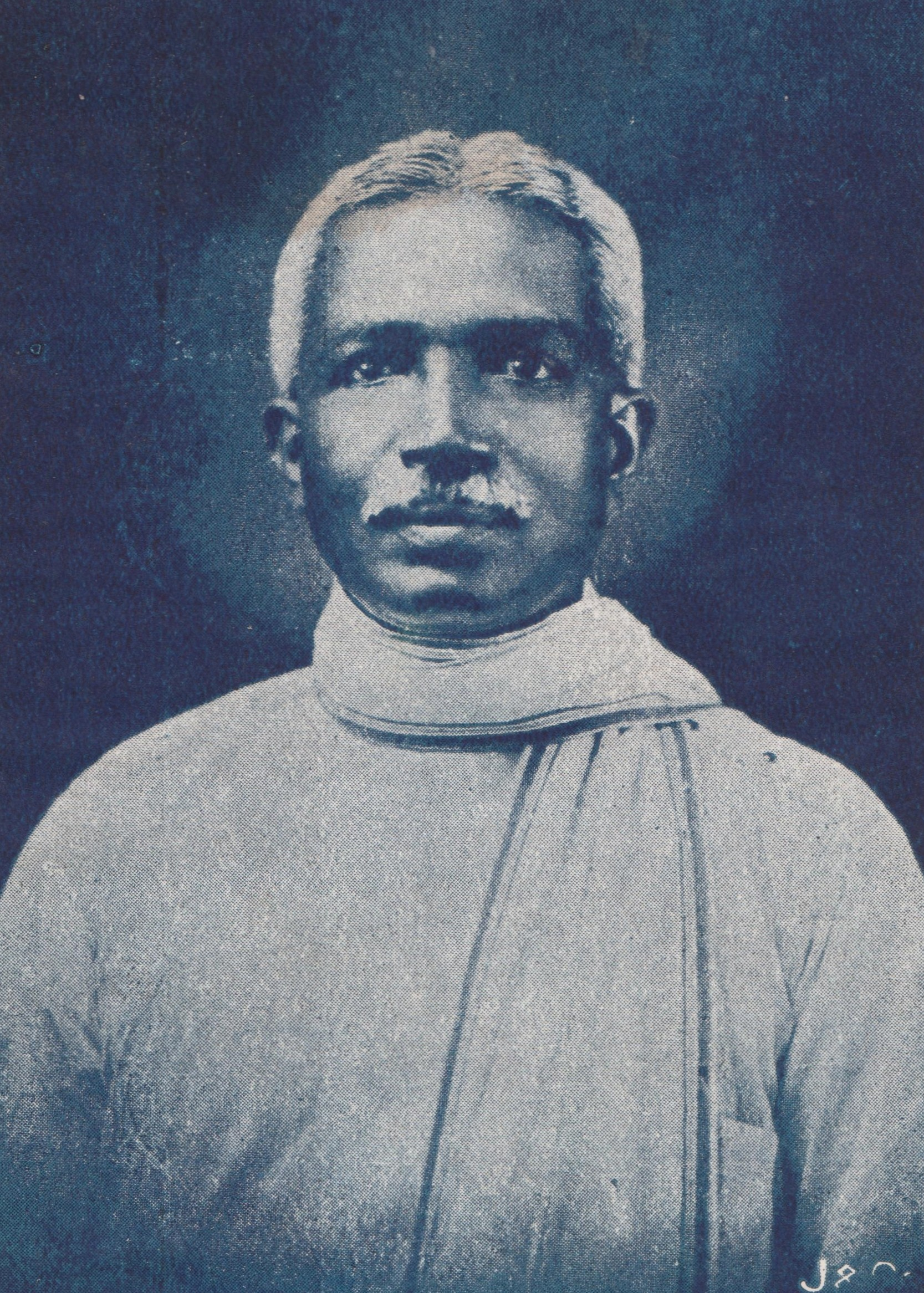 Official Photographic Portrait of first Minister of Education of the State Council of Ceylon (Sri Lanka)